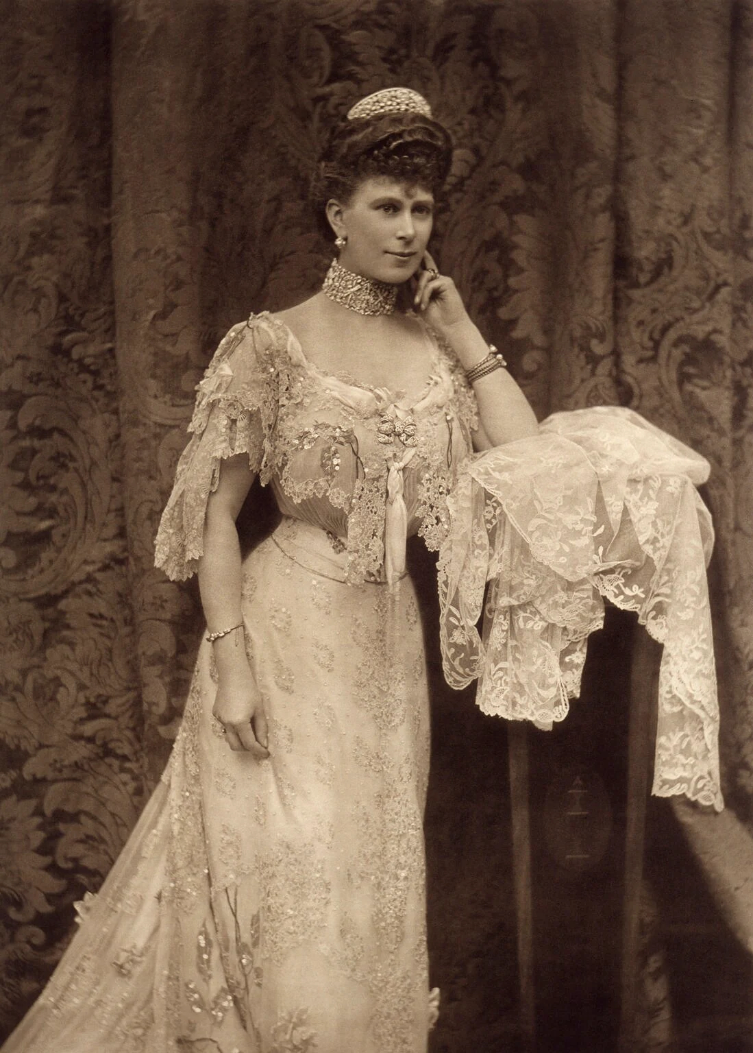 Queen Mary of the United Kingdom, Maria von Teck